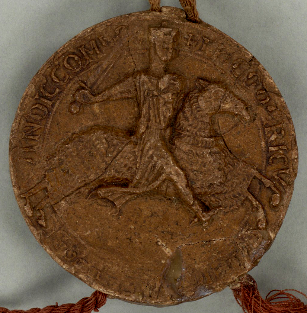 Seal of Count Dirk (Theodericus) VII of Holland